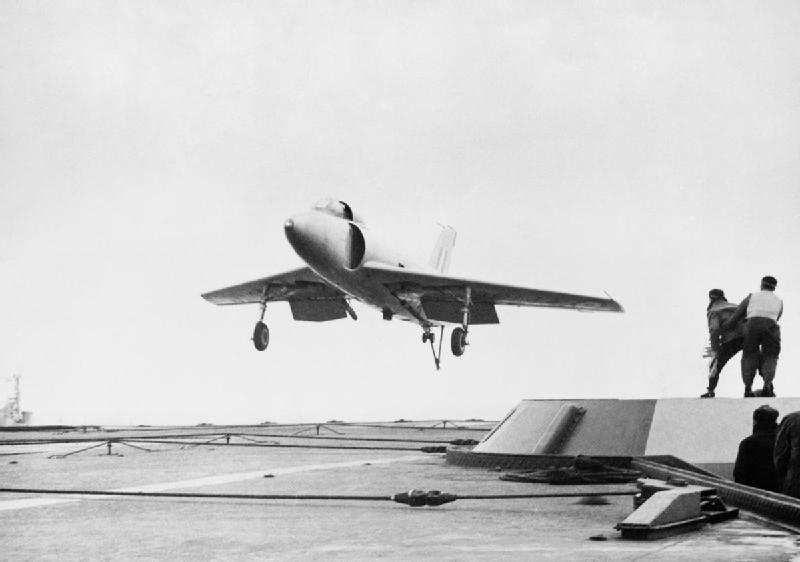 An evaluation model of the Vickers Supermarine 510 (VV106) landing on the aircraft carrier HMS Illustrious (R87), November 1950. The Supermarine 510 performed the first carrier landing of a swept wing aircraft, making twelve landings and take offs. The 510 was developped from the Supermarine Attacker and later went on to form the basis of the Swift used by the Royal Air Force.